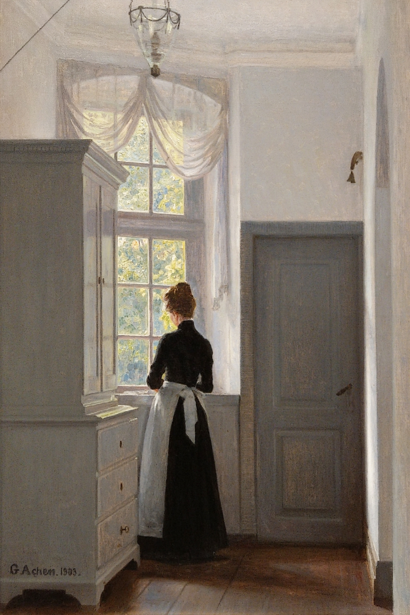 A maid looking out of the window in Liselund Castle.